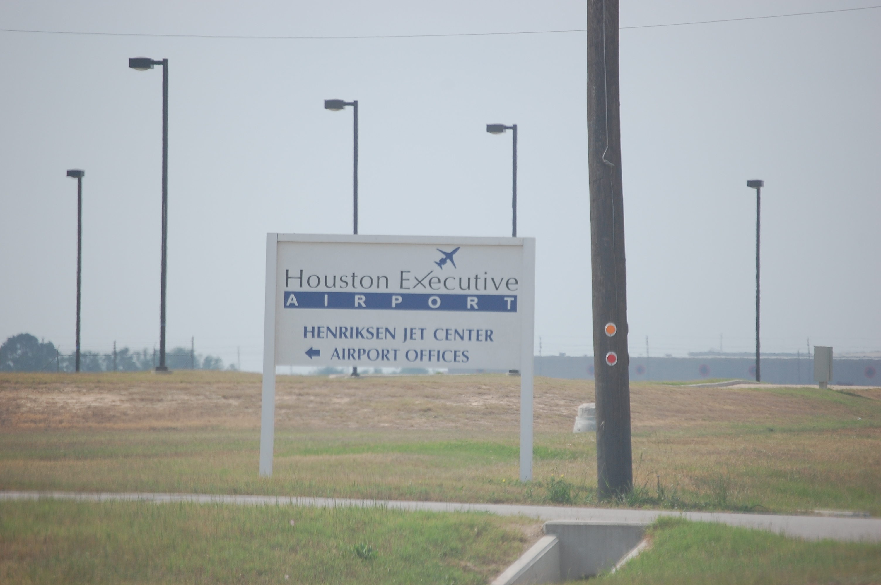 Buildings at the Houston Executive Airport (ICAO: KTME, FAA LID: TME, formerly 78T)